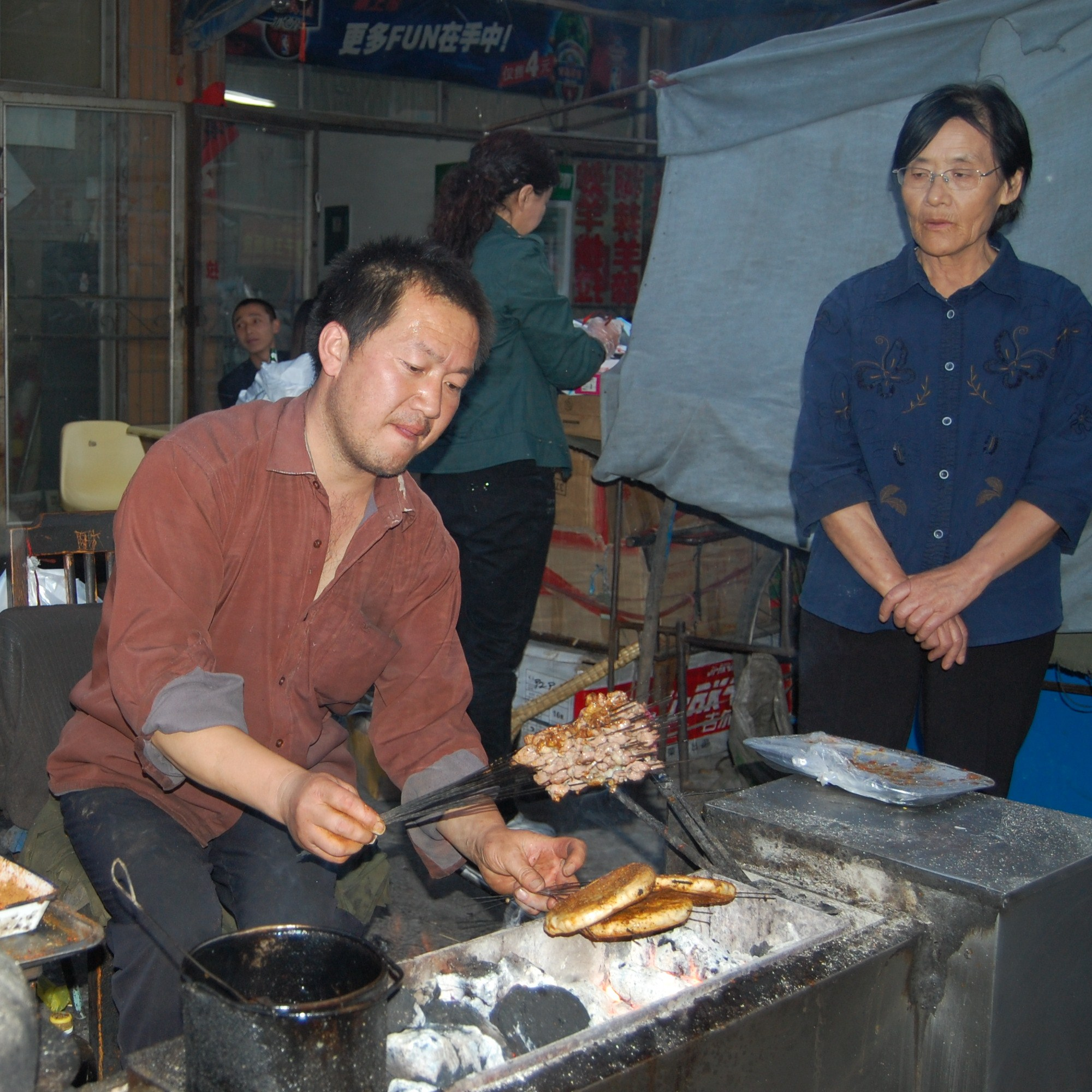 Barbecue in China